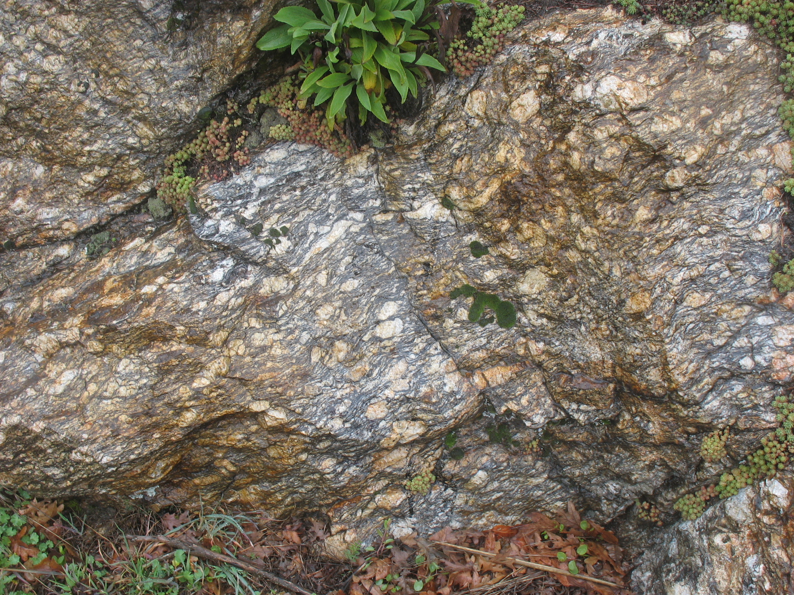 Glandular gneiss. "La Morcuera Gneiss". Miraflores de La Sierra, Madrid, Spain.